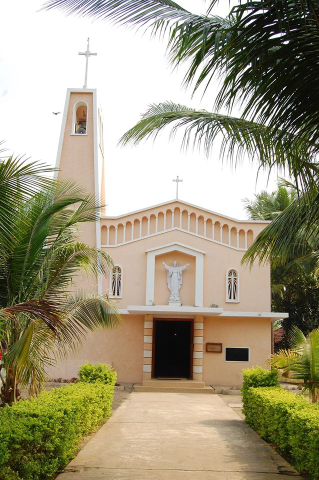 Annadevarapeta church